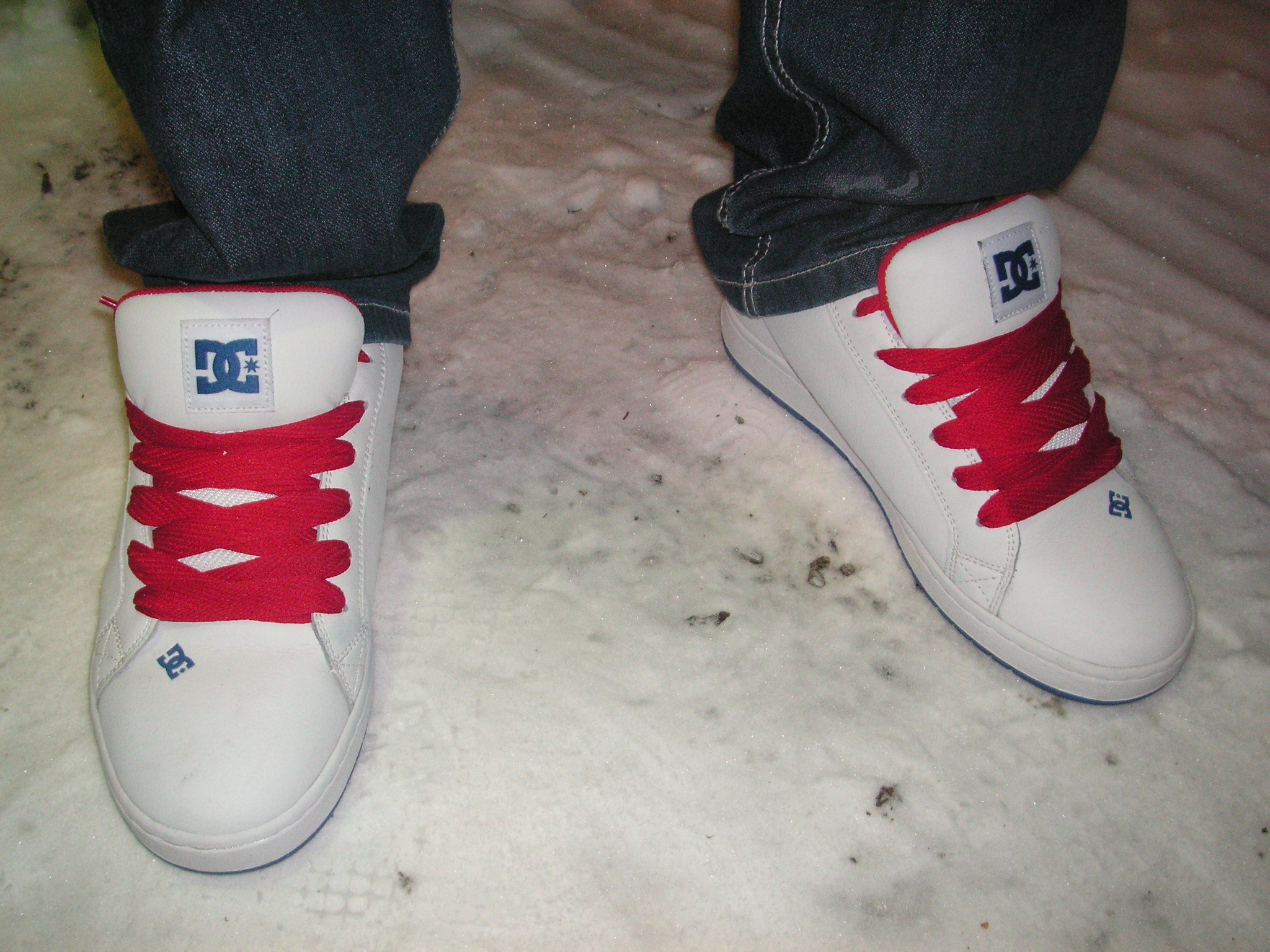 One pair of DC Shoes.